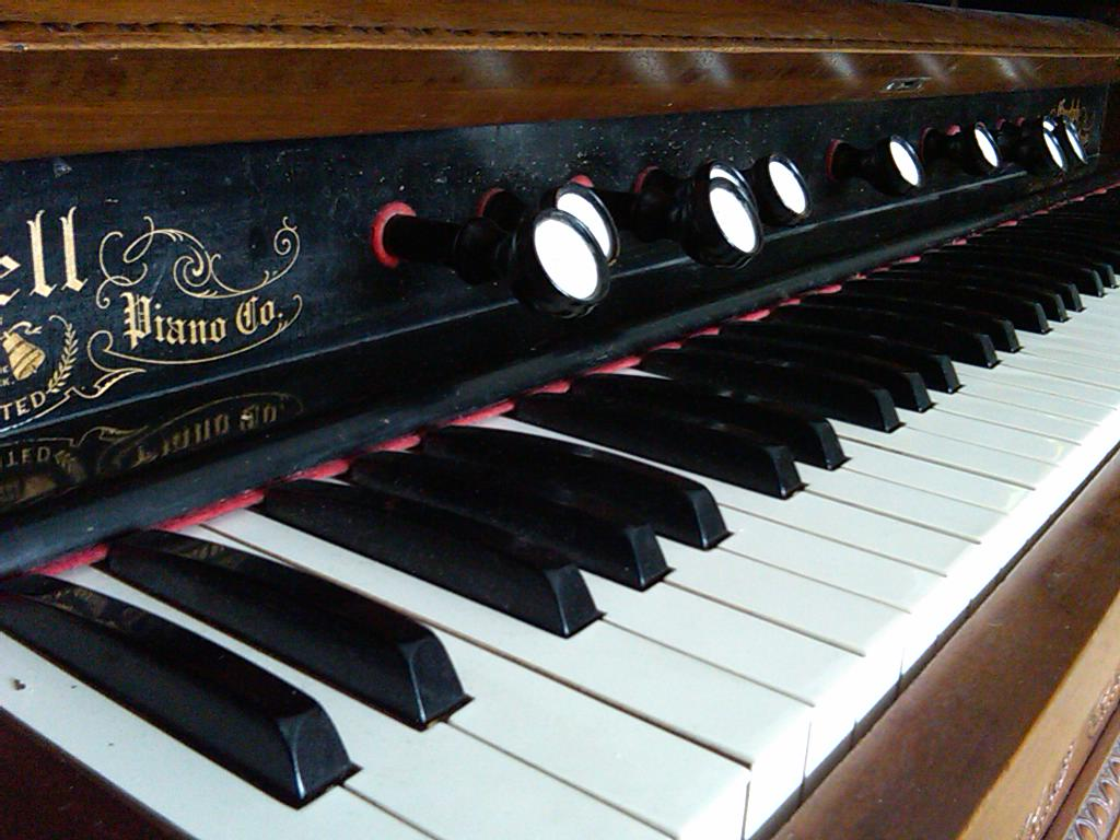 Built in late 1800's by the Bell Organ and Piano Company, Guelph Ontario Canada.